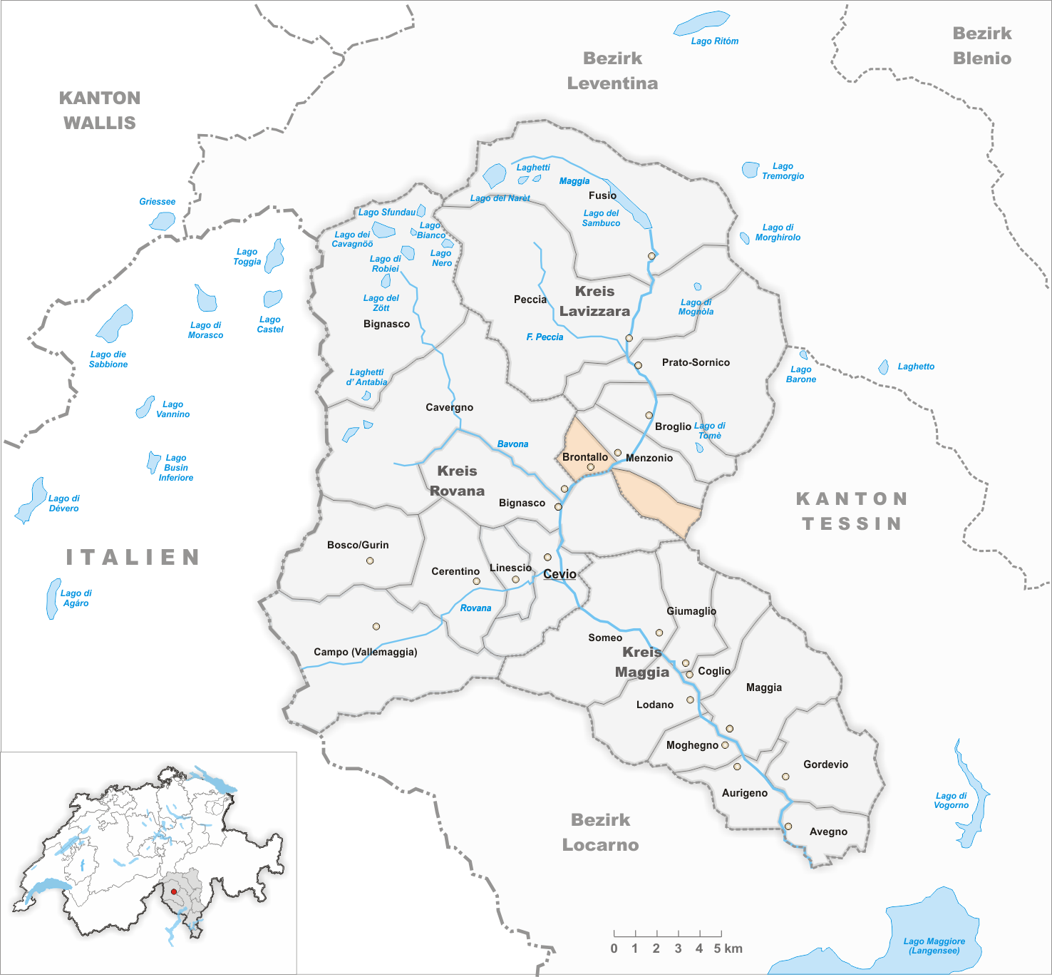 Municipality Brontallo